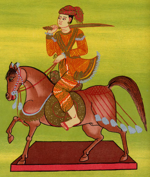 Aungzwamagyi nat (spirit), th in the official pantheon of Burmese nats